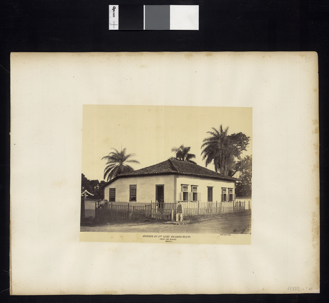 The Thereza Christina Maria collection is composed of 21,742 photos assembled by Emperor Pedro II (1825-91) throughout his life and donated by him to the National Library of Brazil. The collection covers a wide variety of subjects. It documents the achievements of Brazil and Brazilians in the 19th century and also includes many photographs of Europe, Africa, and North America. In 1868, photographer Augusto Riedel accompanied Luis Augusto, Duke of Saxe, son-in-law of Emperor Pedro II, on an expedition into the interior of Brazil. During the expedition, the group visited Peter Wilhelm Lund (1801-80) at his home in Lagoa Santa. Lund was a Danish naturalist and paleontologist who spent most of his life in Brazil. While working in the state of Minas Gerais, he discovered the remains of Ice Age animals and early humans. He was the first person to identify the saber-toothed cat. Over the course of his career, he excavated and identified more than 20,000 bones of extinct species. Dwellings; Lund, Peter Wilhelm, 1801-1880; Memory of the World